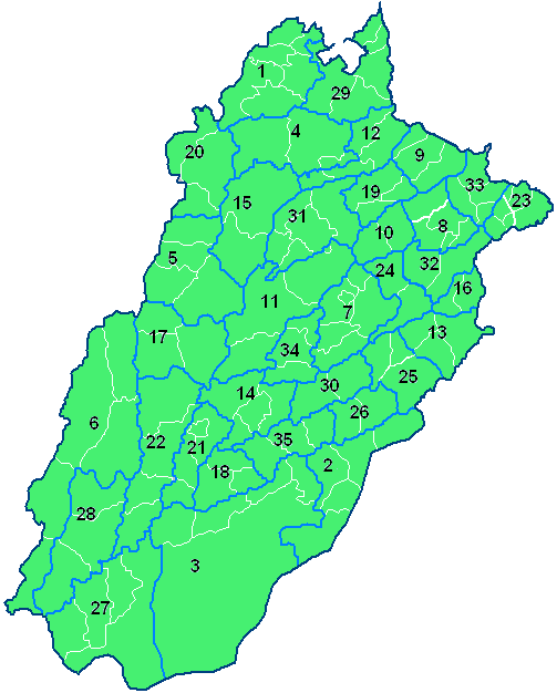 Punjab, Pakistan's administrative districts and tehsils.